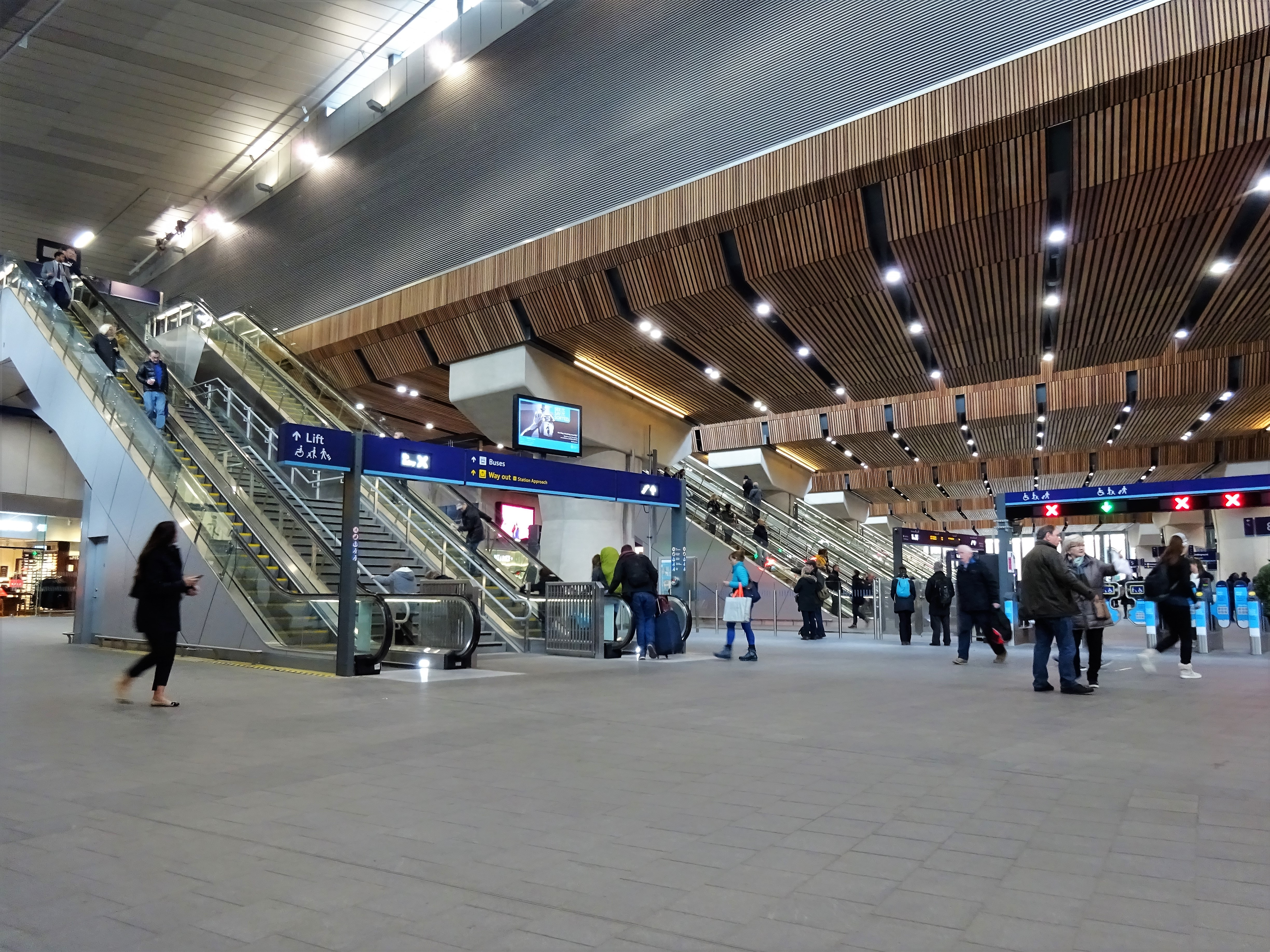 London January 5 2018 (47) London Bridge Station